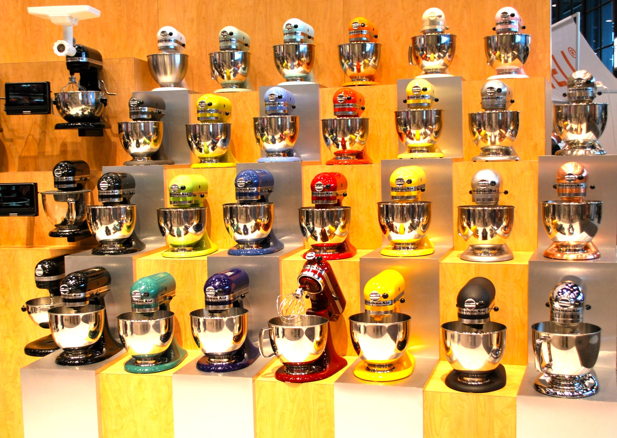 A wall of KitchenAid mixers at a trade show.